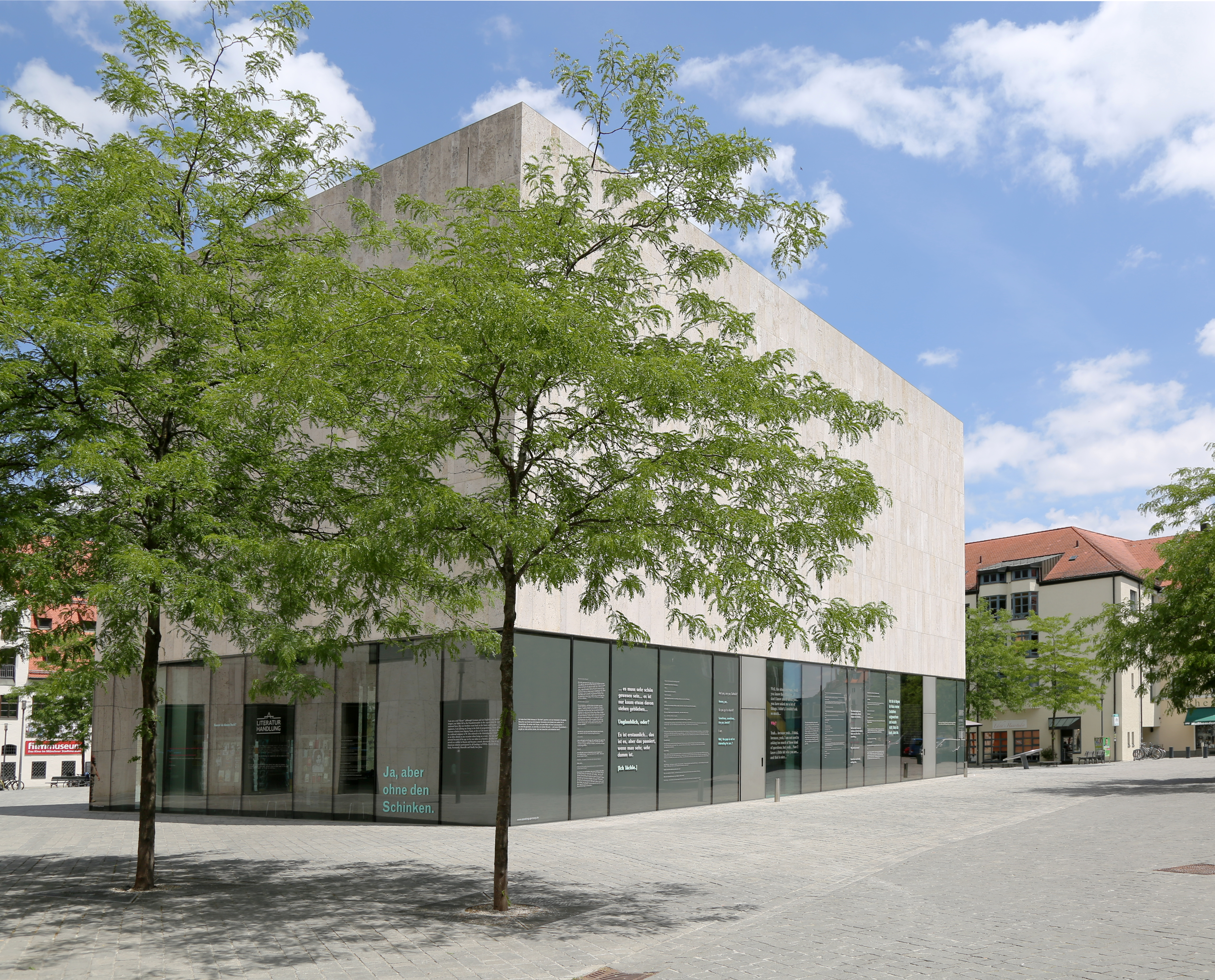 Jewish Museum Munich